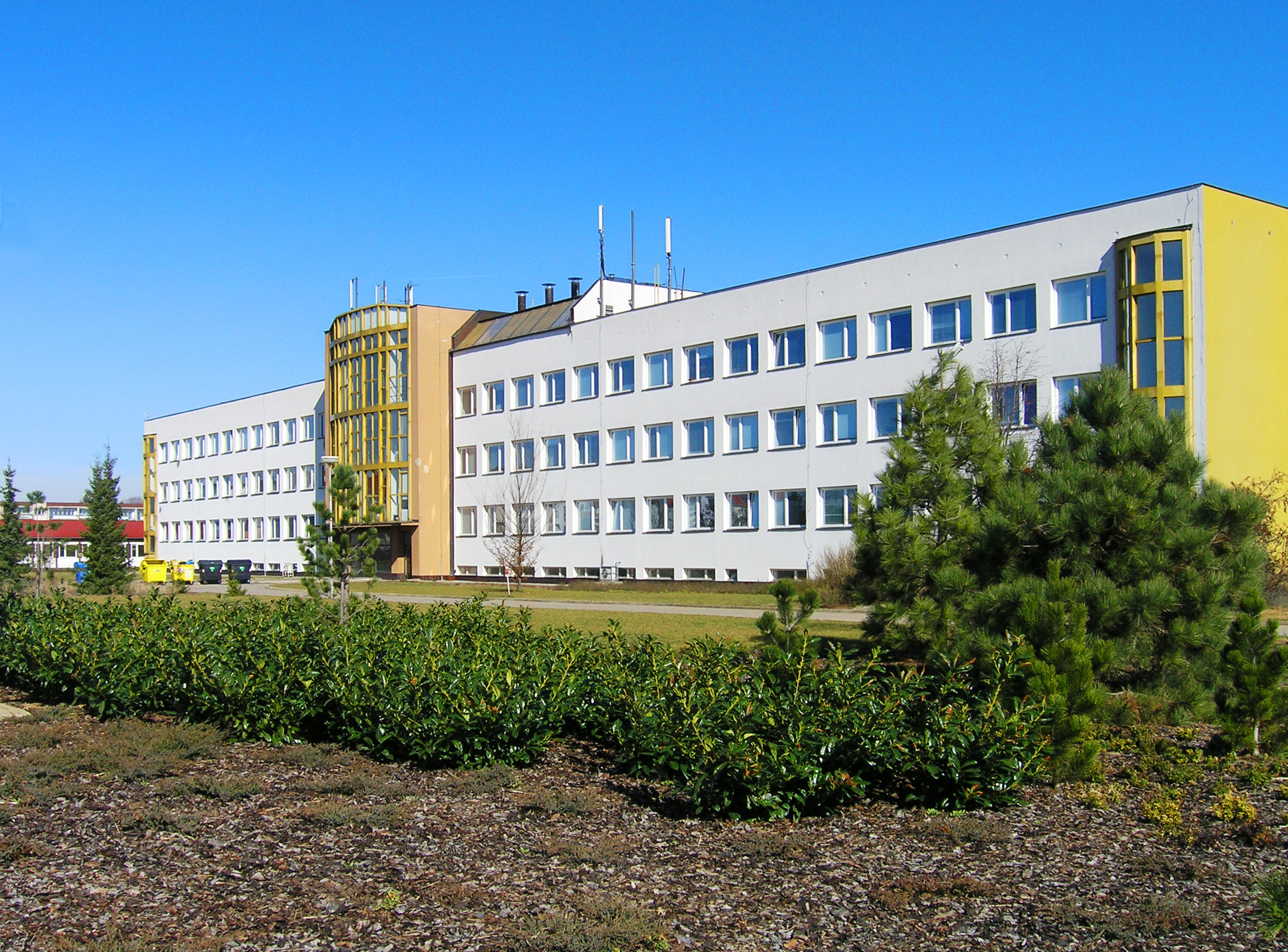 Czech University of Life Sciences Prague in Suchdol, Prague. Faculty of Environmental Engineering.